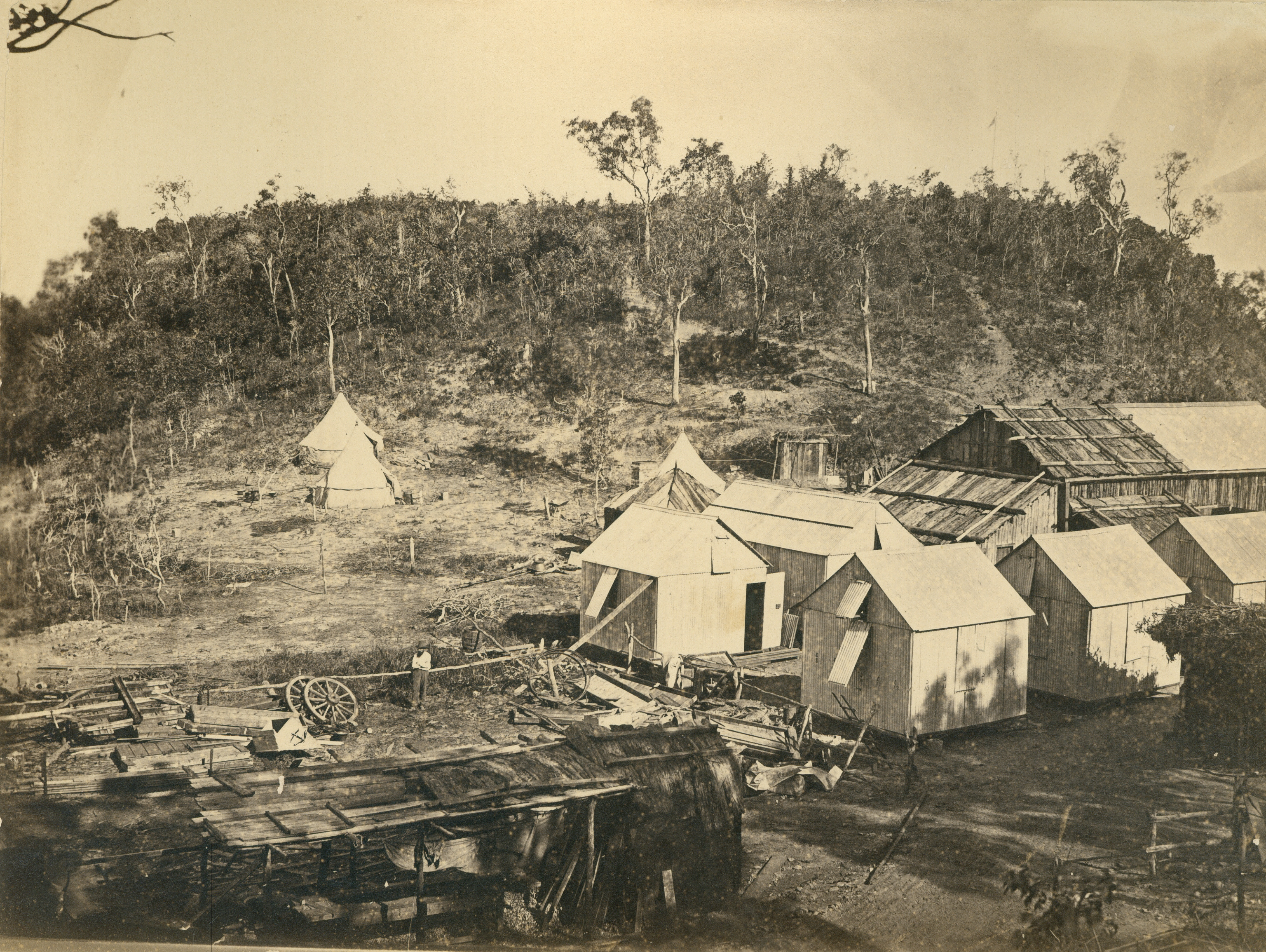 Fort Hill 1870 view of Goyder's survey camp with Fort Hill in the background.